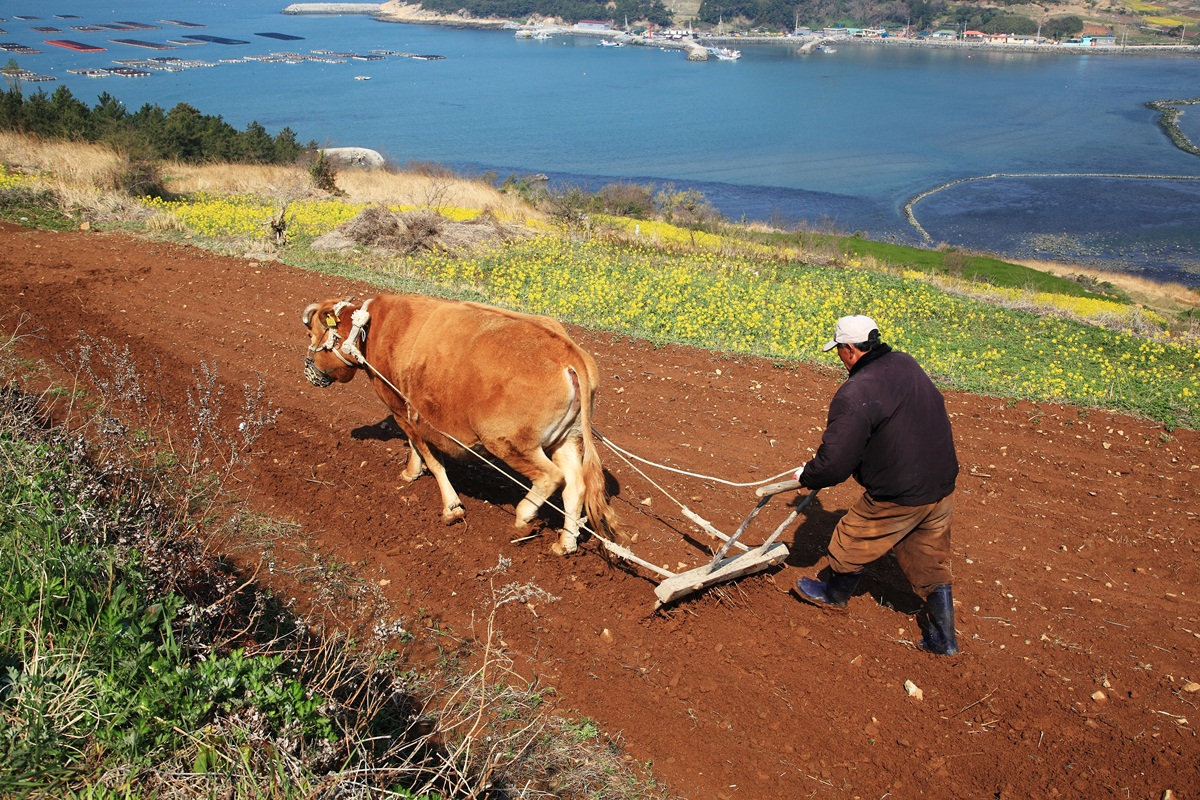 Ploughing